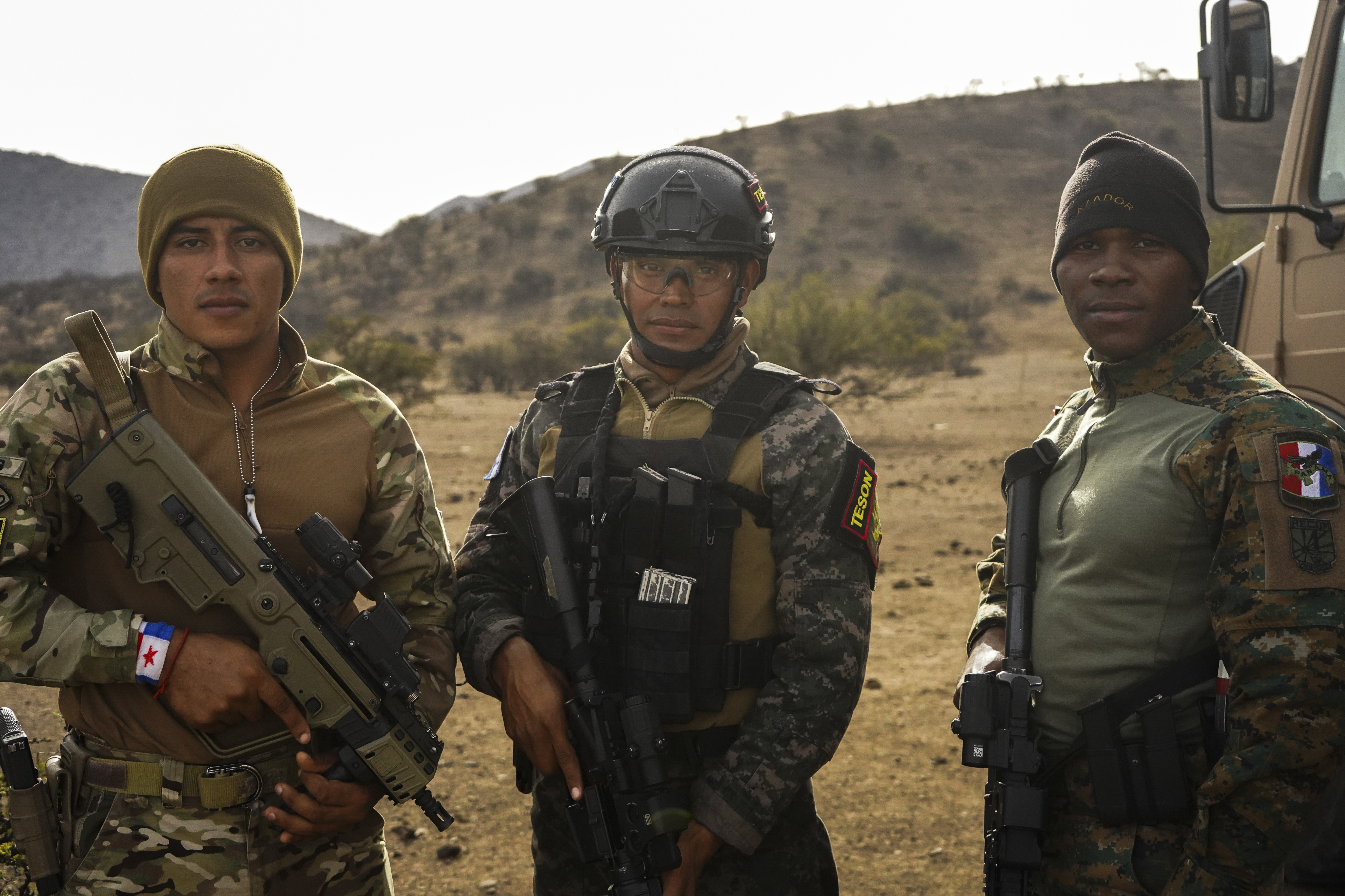 Participants of Fuerzas Comando took part in critical task events three and four June 19, 2019 in the “Brigada de Operaciones Especiales Lautaro,” Santiago, Chile. Competitors demonstrated their proficiency and accuracy by shooting targets in a simulated tactical environment. Existing partnerships allow us to exchange experiences and gain new knowledge about our counterparts, their countries and their cultures. (U.S. Army photo by Spc. Jose Vargas)